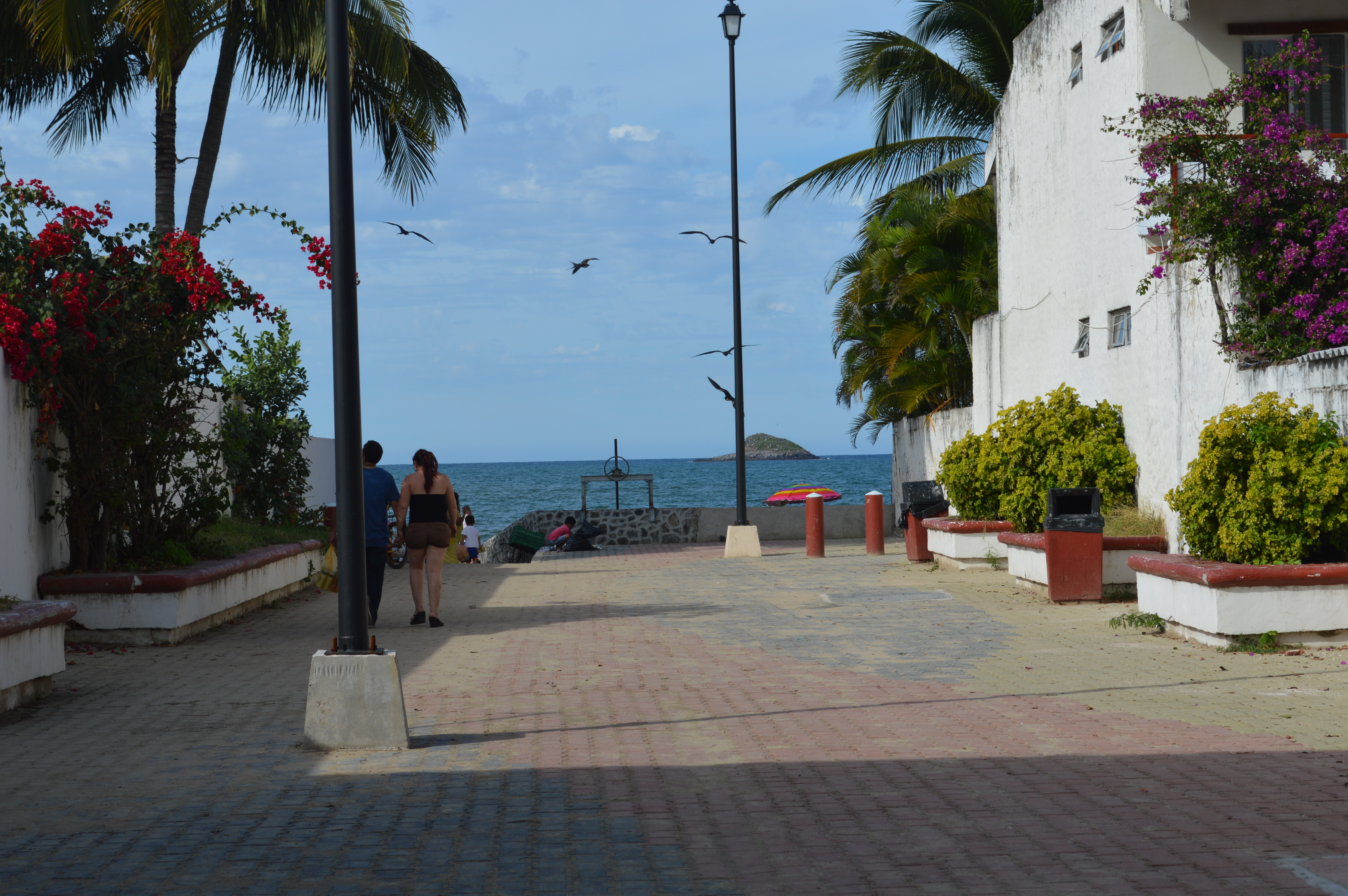 Hotel Bungalows As de Oros in Guayabitos, Nayarit, Mexico